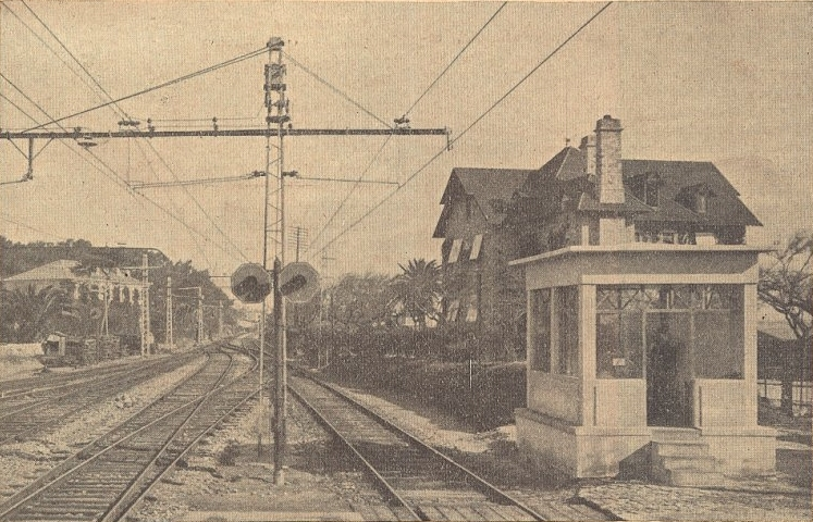 Signal box at Cascais Railway Station, in Portugal. This photograph was published on the Gazeta dos Caminhos de Ferro magazine No. 1130, of 16th January 1935, and scanned by the Hemeroteca Municipal de Lisboa.